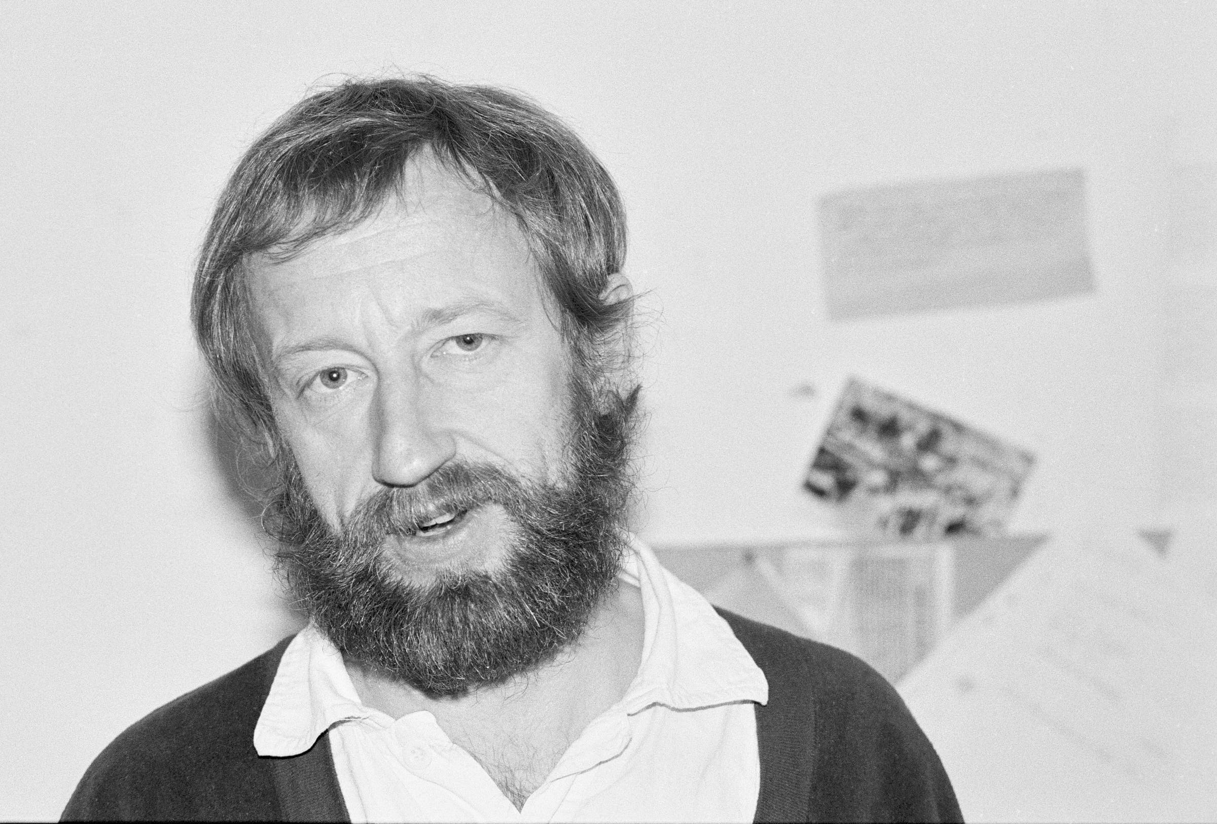 Swedish artist, cartoonist and comics creator Lars Hillersberg at a meeting in Stockholm October 1979.